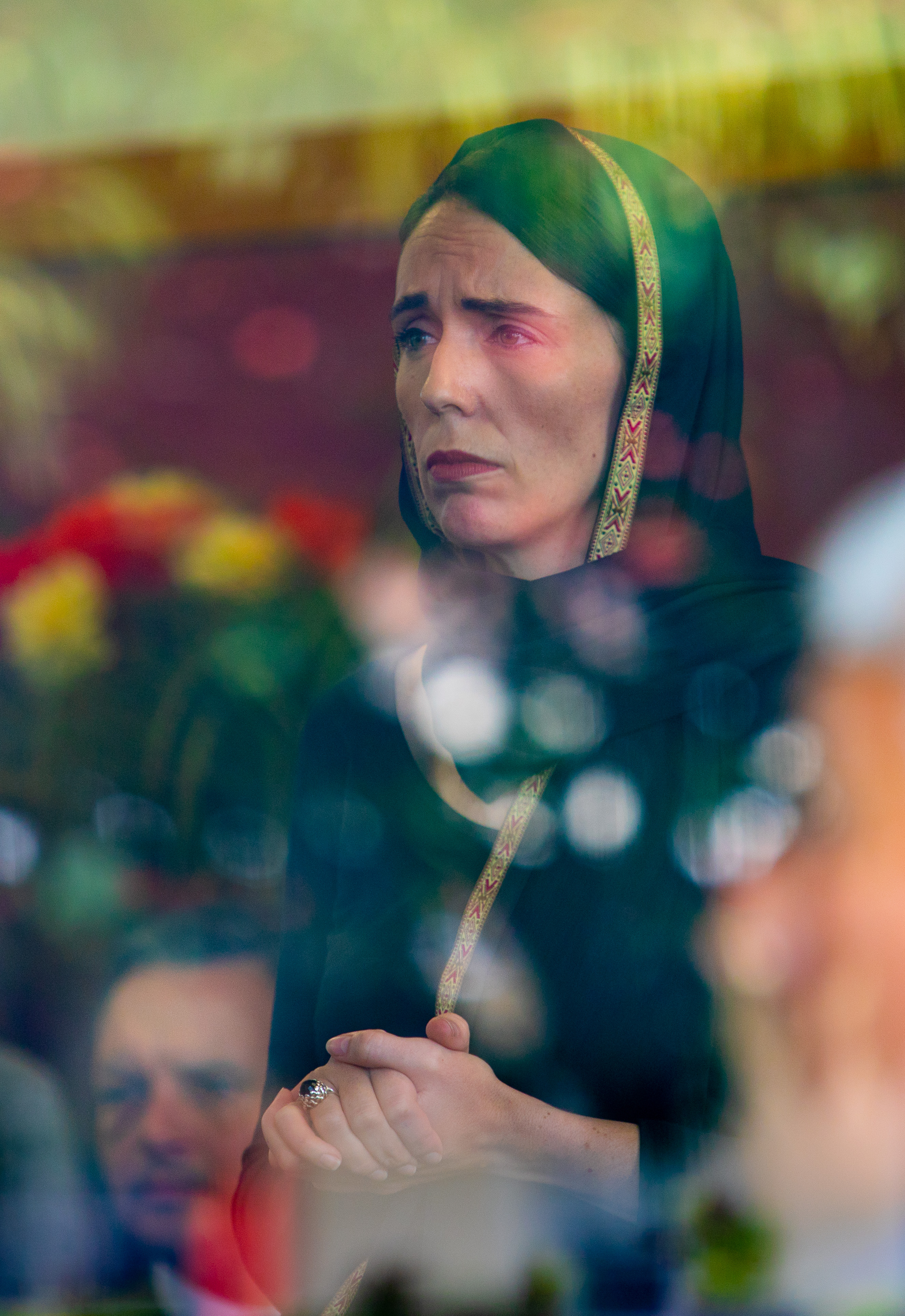 New Zealand Prime Minister Jacinda Ardern visits members of the Muslim community at the Phillipstown Community Centre on Saturday 16 March 2019, less than 24 hours after a terror attack to two mosques left 50 people dead and dozens seriously injured in Christchurch. New Zealand Climate Minister James Shaw sits in the background with a bruised eye following an alleged assault in Wellington. The photograph was taken through the window of a converted classroom; reflections of trees can be seen on the glass. For more information, see this interview with the photographer.